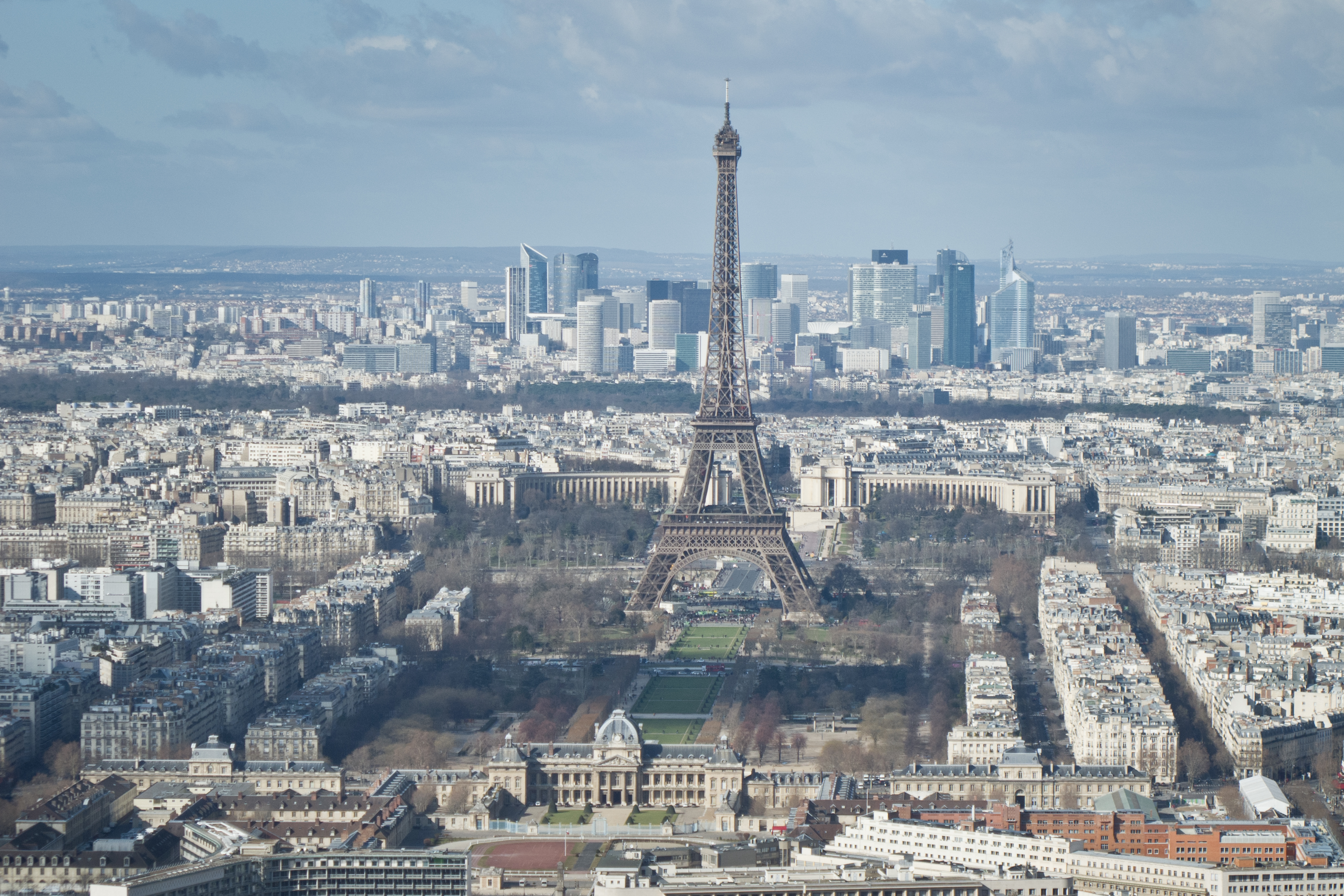 Tour Eiffel, École militaire, Champ-de-Mars, Palais de Chaillot, La Défense (Paris, France) from the Tour Montparnasse.